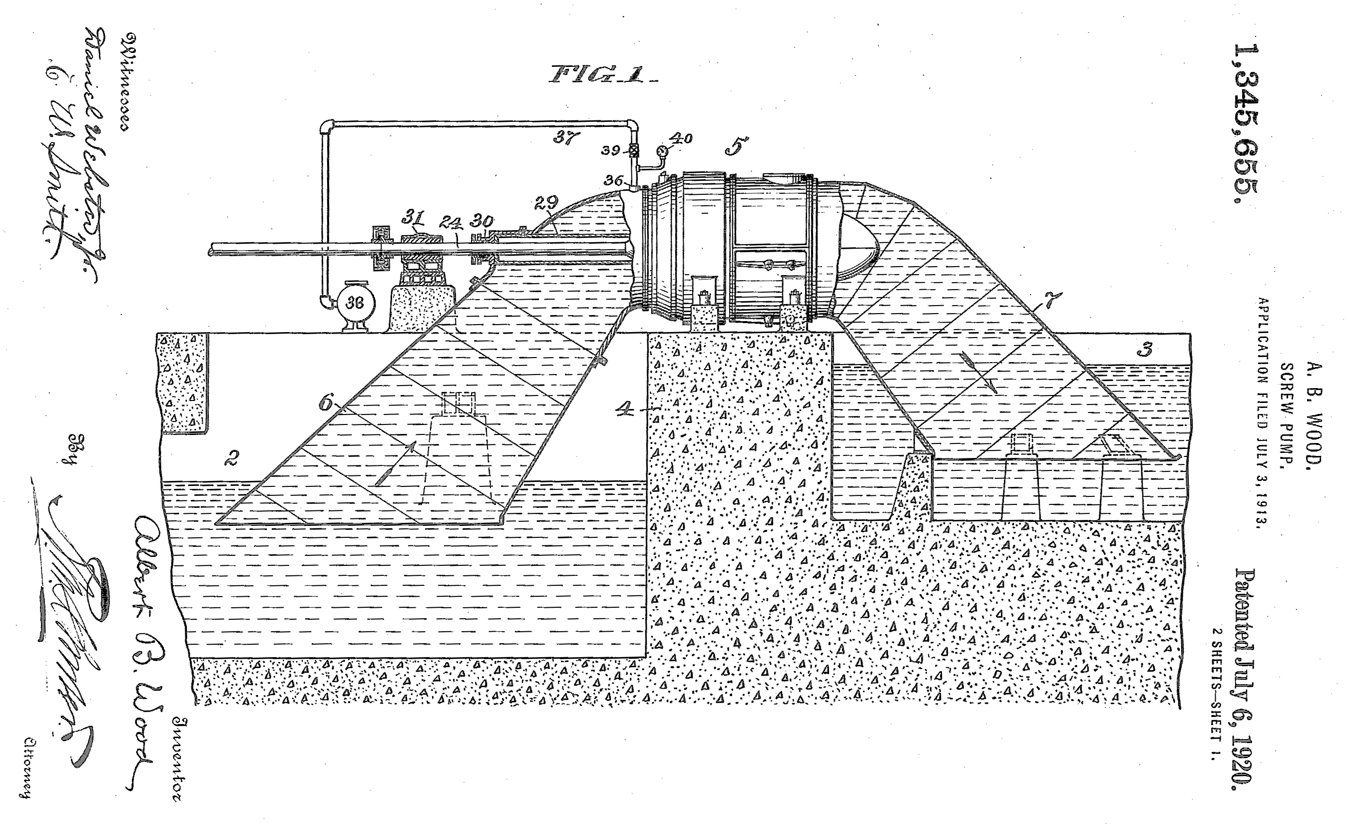 Diagram of Patent 1,345,655 Wood Screw Pump from US Patent Office. Image to be used in A. Baldwin Wood and Wood Screw Pump. Image from Patent Office website